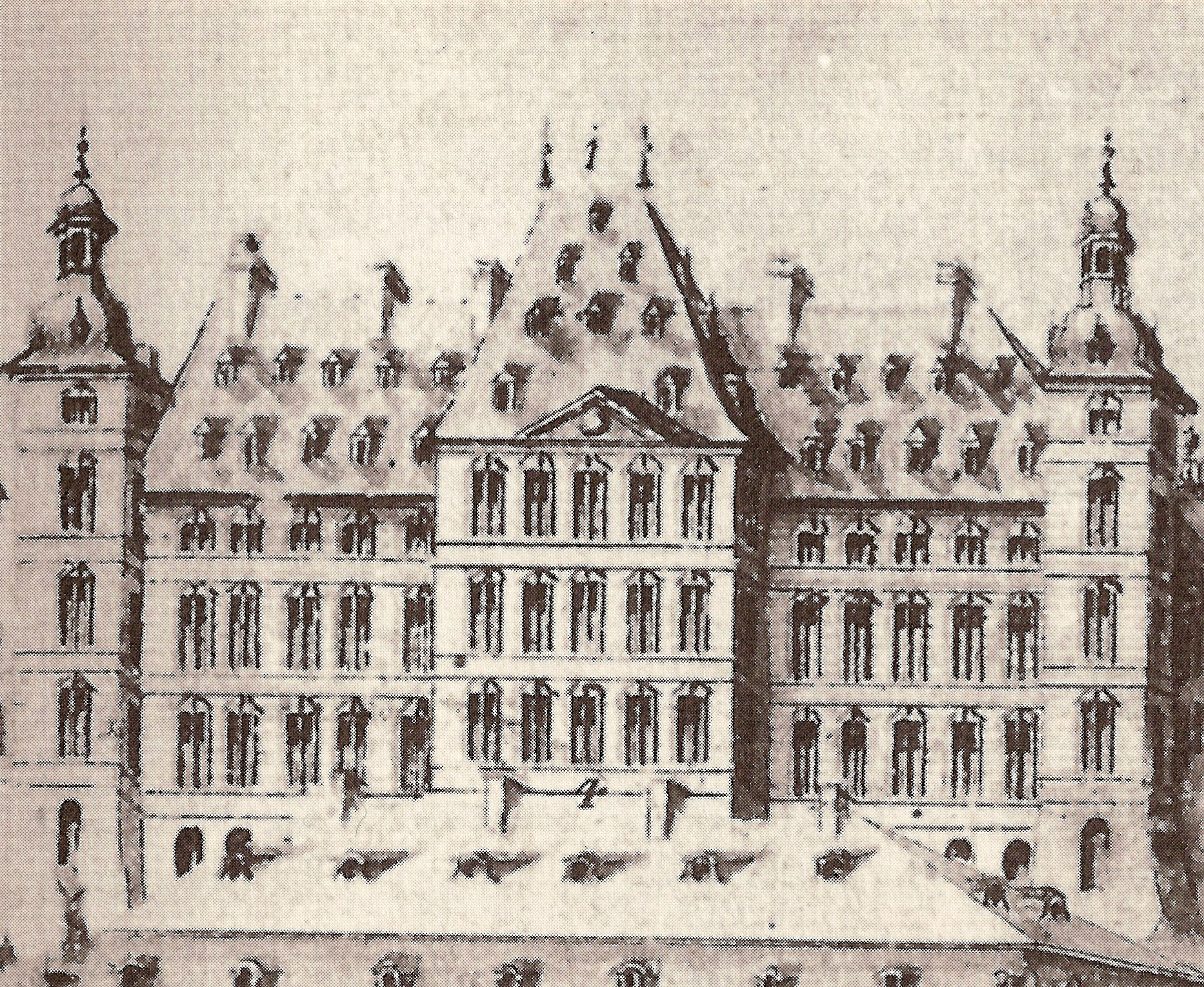 Castle Blieskastel